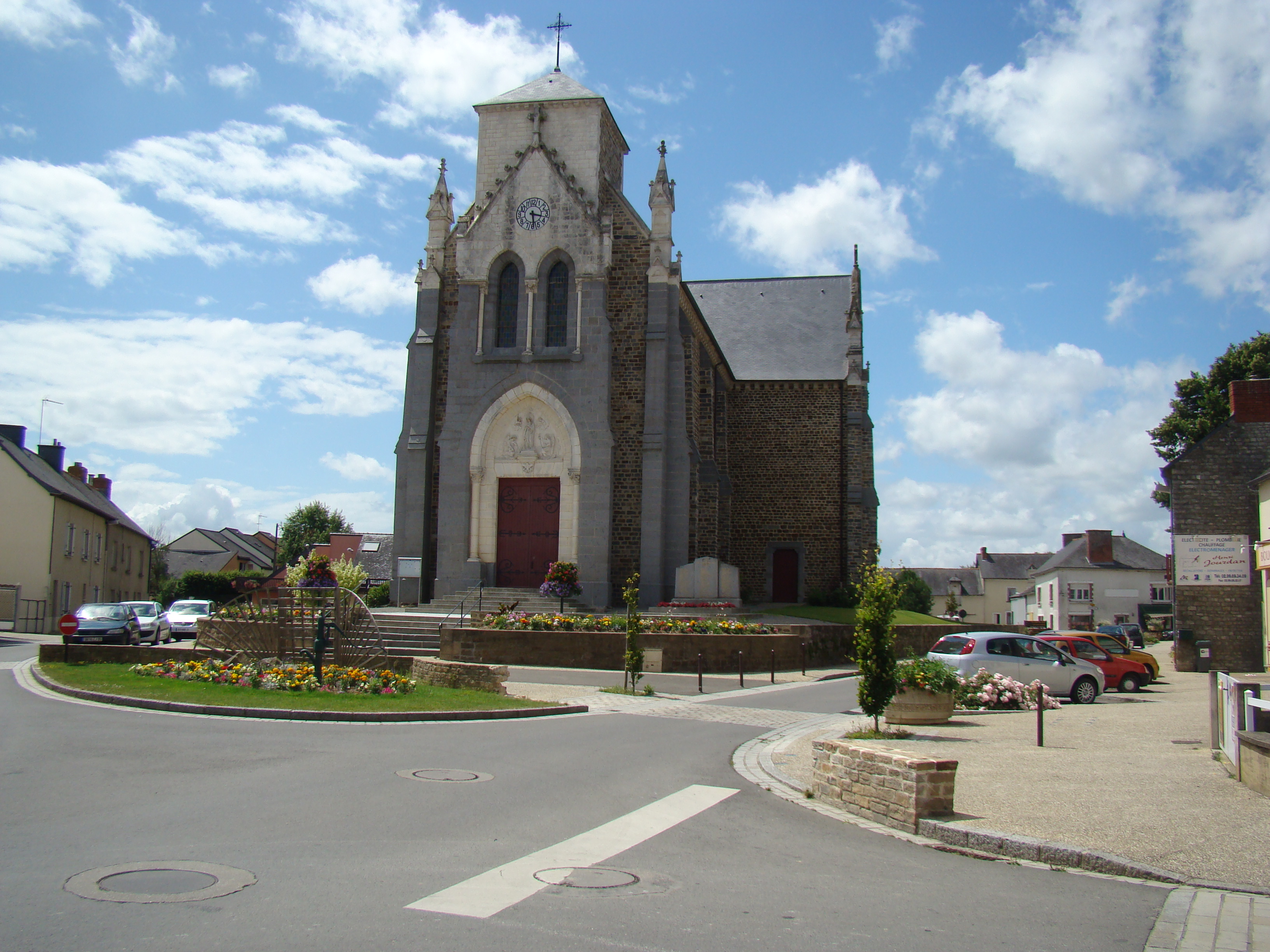 Church of La Mézière